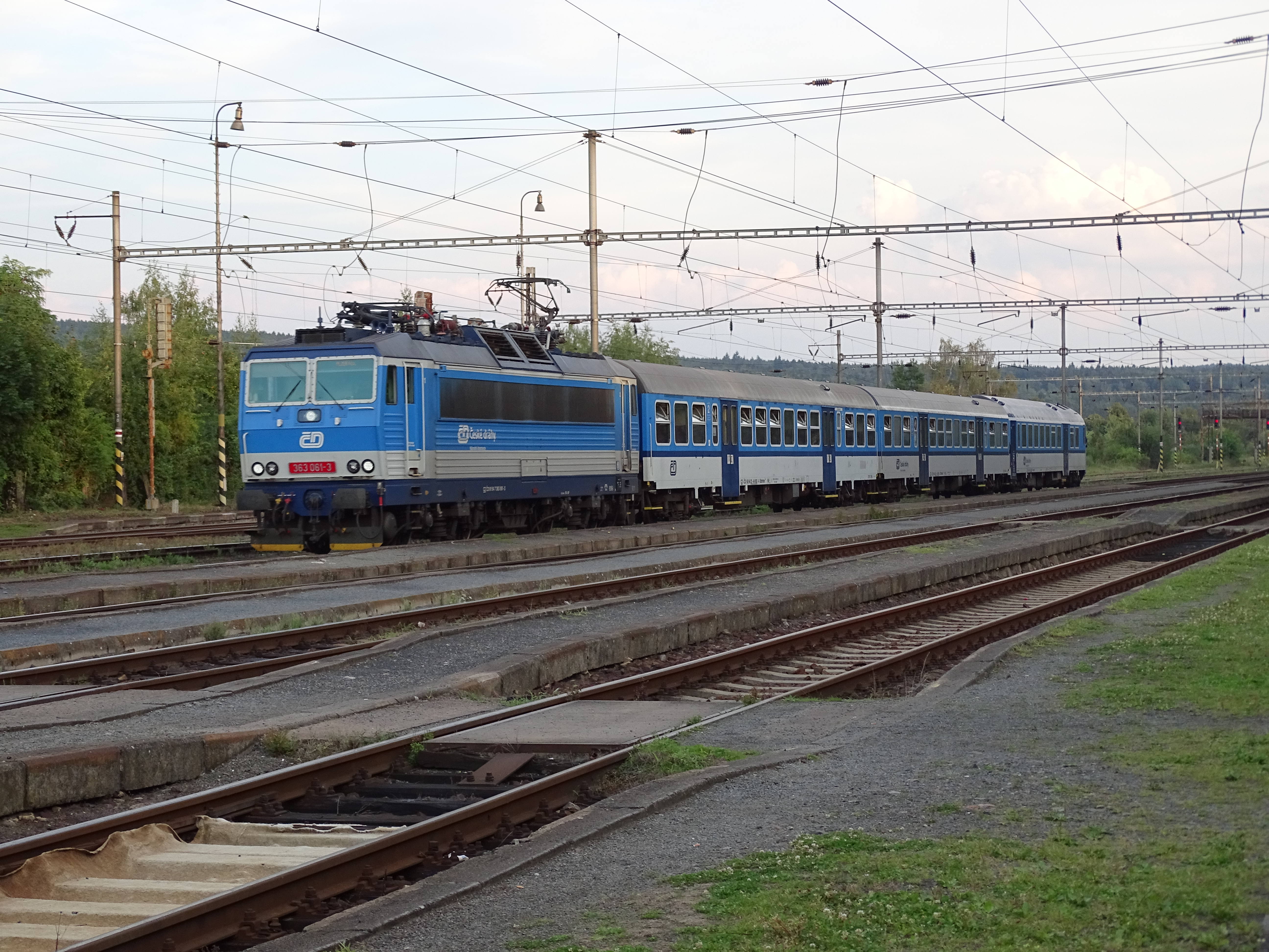 Chrást, Plzeň-City District, Plzeň Region, the Czech Republic. Train station Chrást u Plzně.